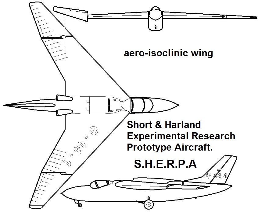 Short SB 4 with Aero_Isoclinic_Wing